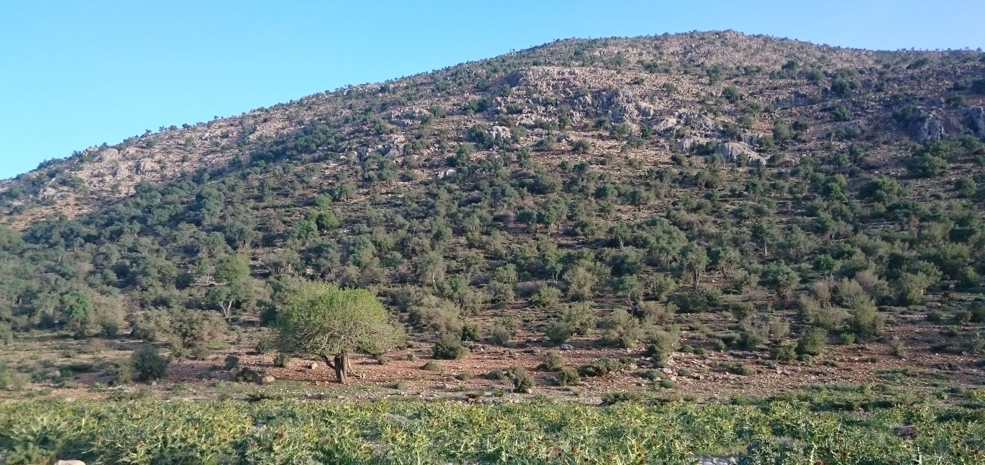 Basseri nomads district in Eqlid